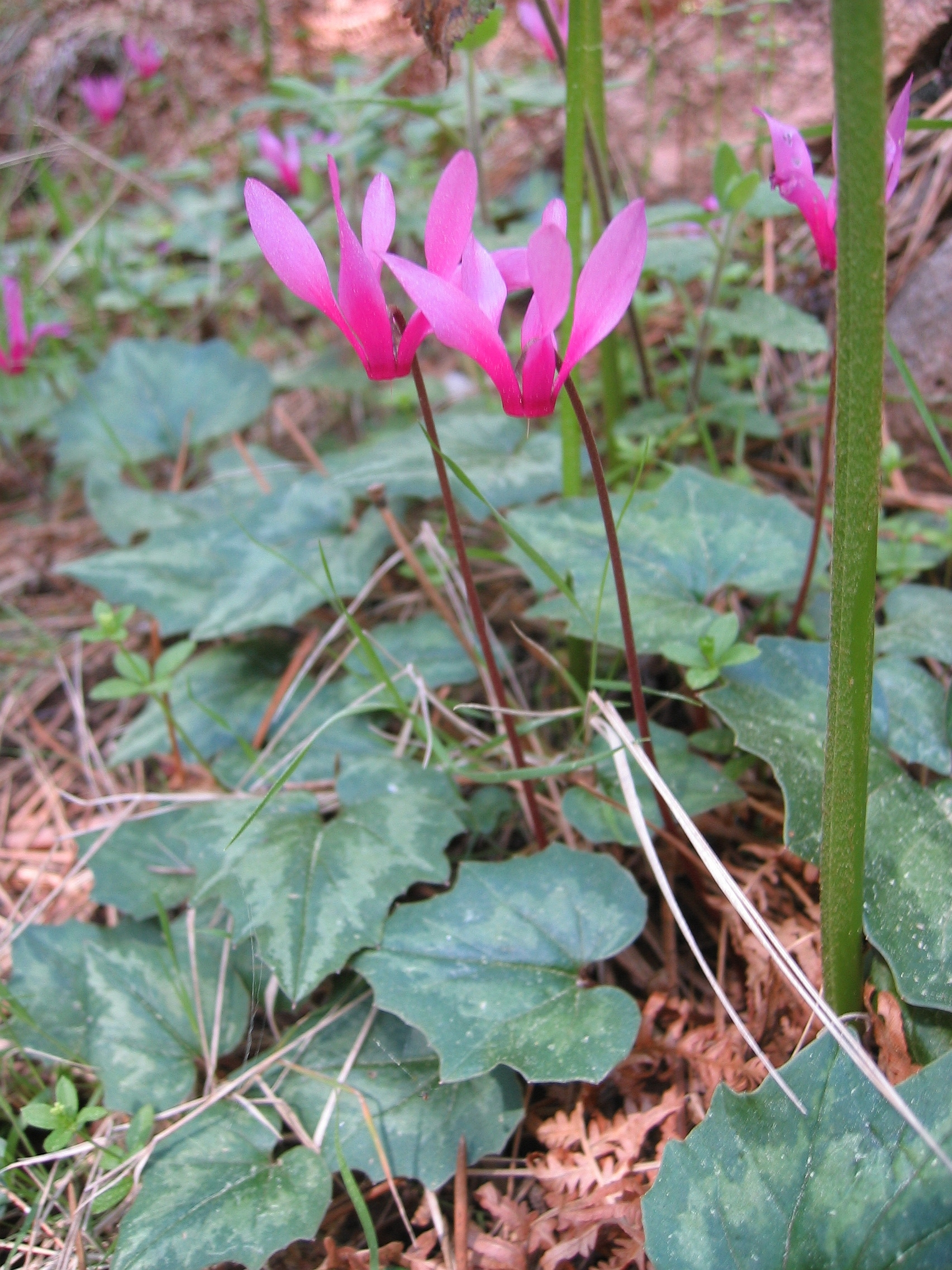 Cyclamen repandum Forest of Bonifatu, Corse, France